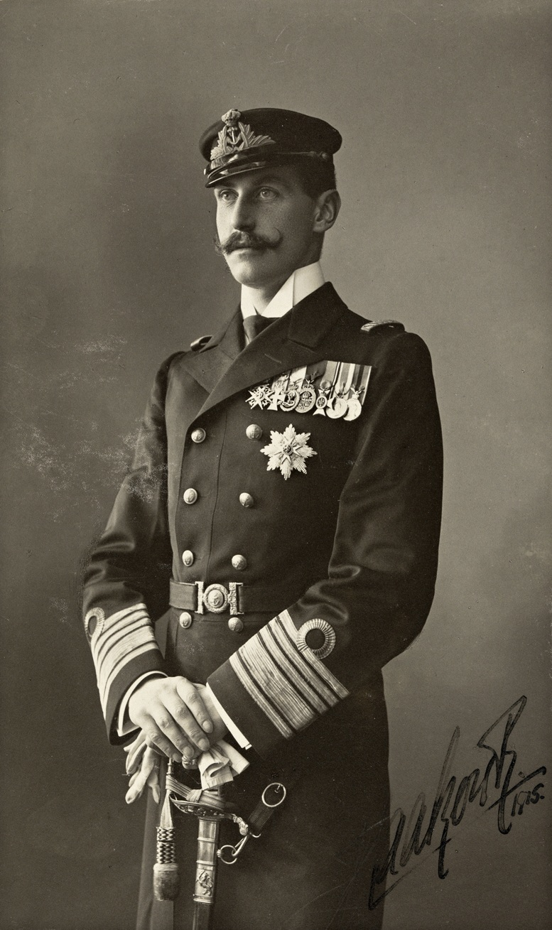 Tittel / Title: Portrett av Kong Haakon VII / King Haakon VII Dato / Date: 1915 Sted / Place: Oslo Eier / Owner Institution: Nasjonalbiblioteket / National Library of Norway Lenke / Link: Bildesignatur / Image Number: blds_04771